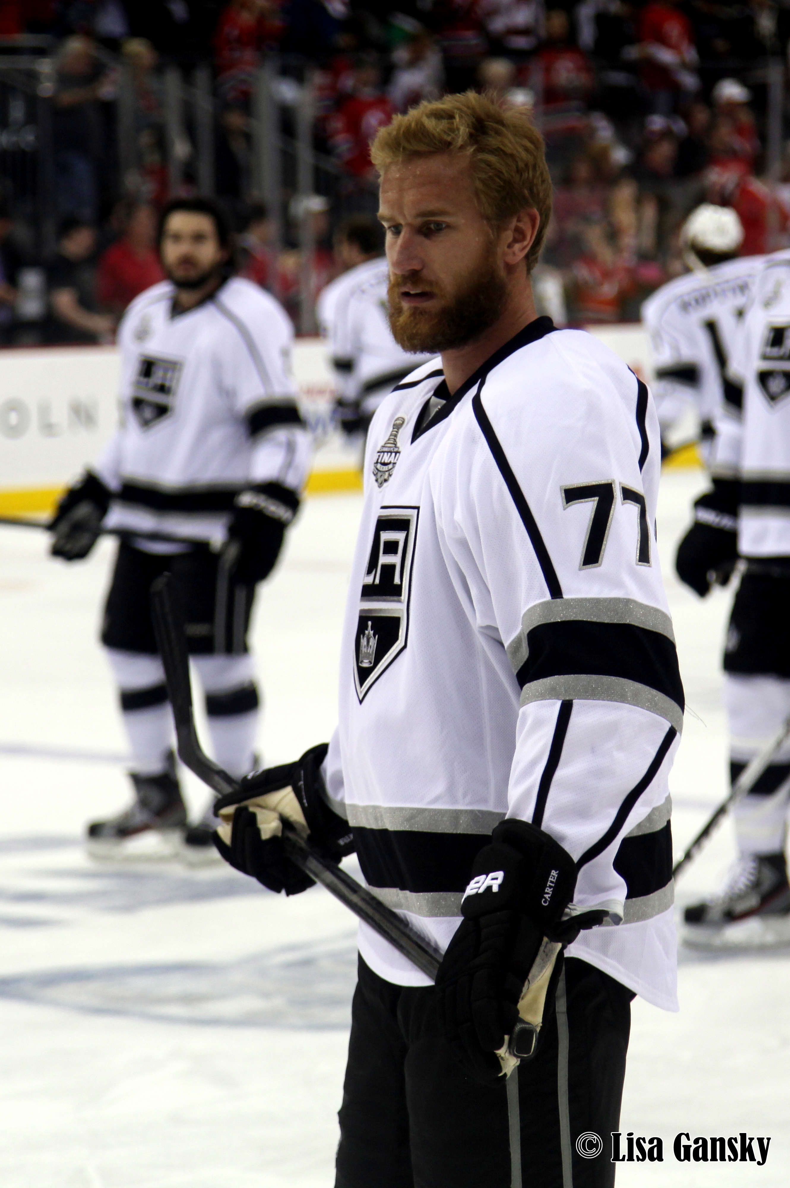 Carter in 2012, during the Stanley Cup Finals.